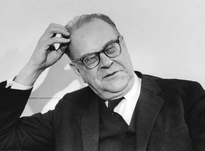 Portrait of Sweden's Prime Minister Tage Erlander taken in an unknown context